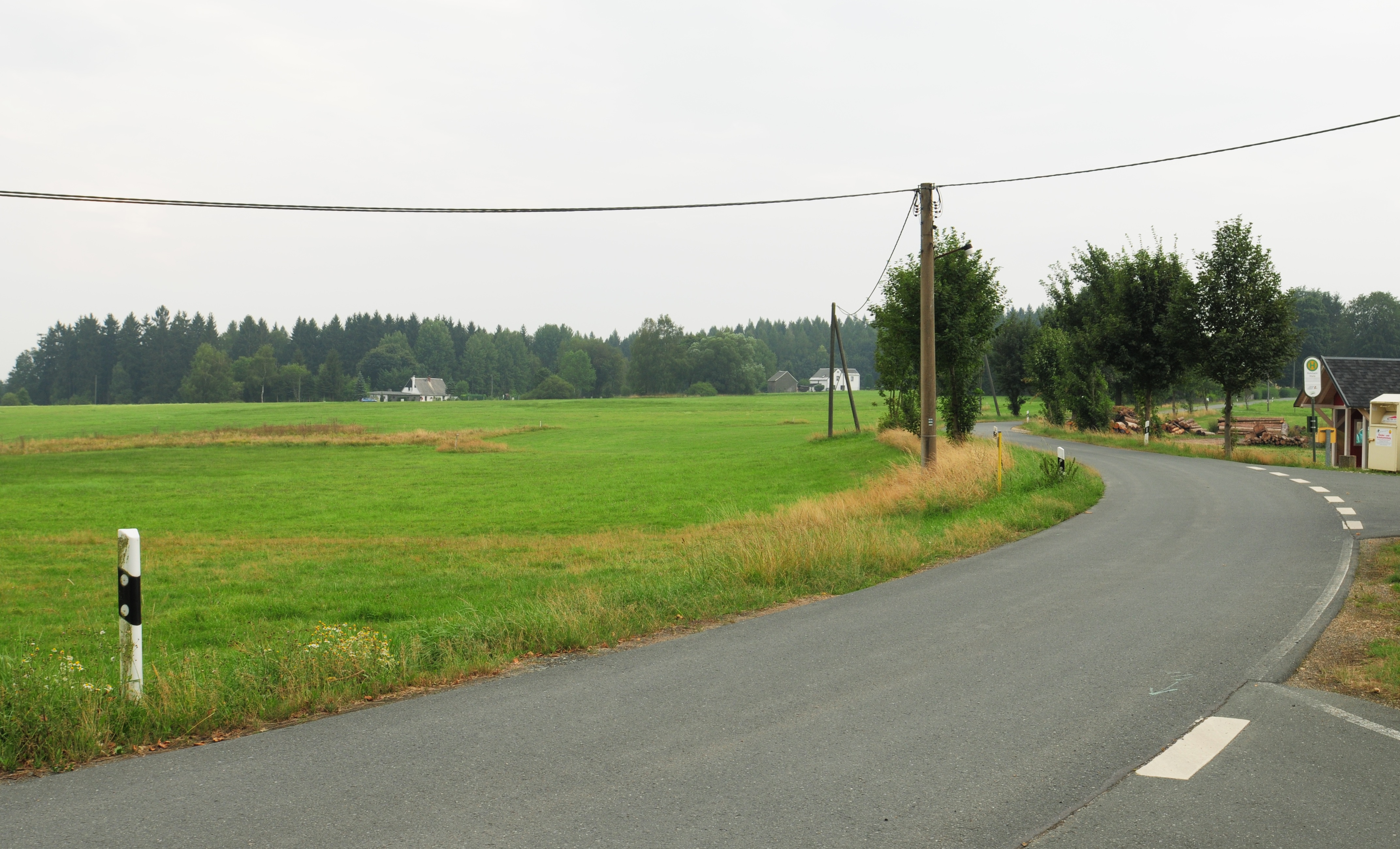 municipality Bad Brambach: rural district Rohrbach, view at southwest (district Vogtlandkreis, Free State of Saxony, Germany)